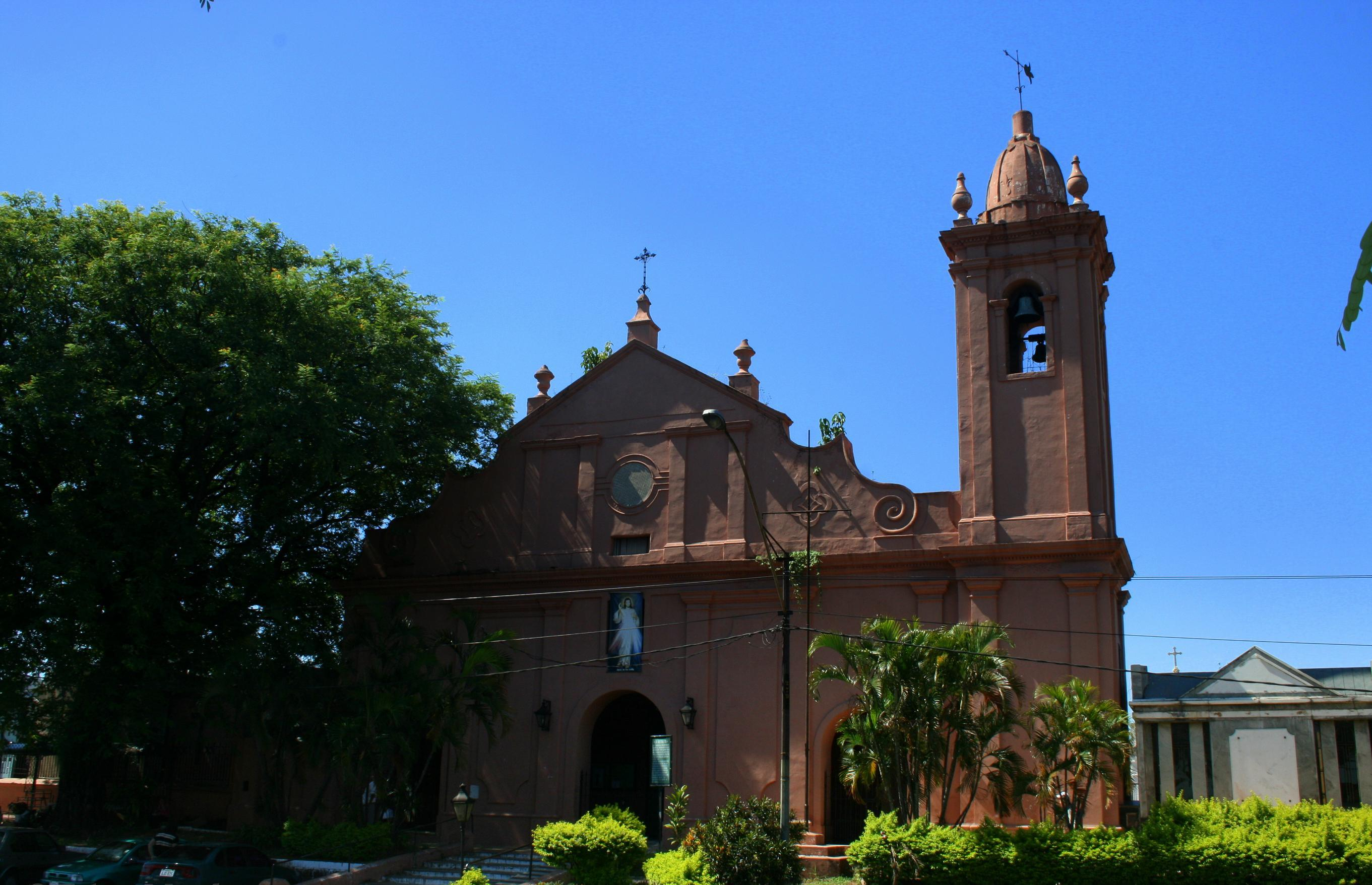 Recoleta Church in Asunción city